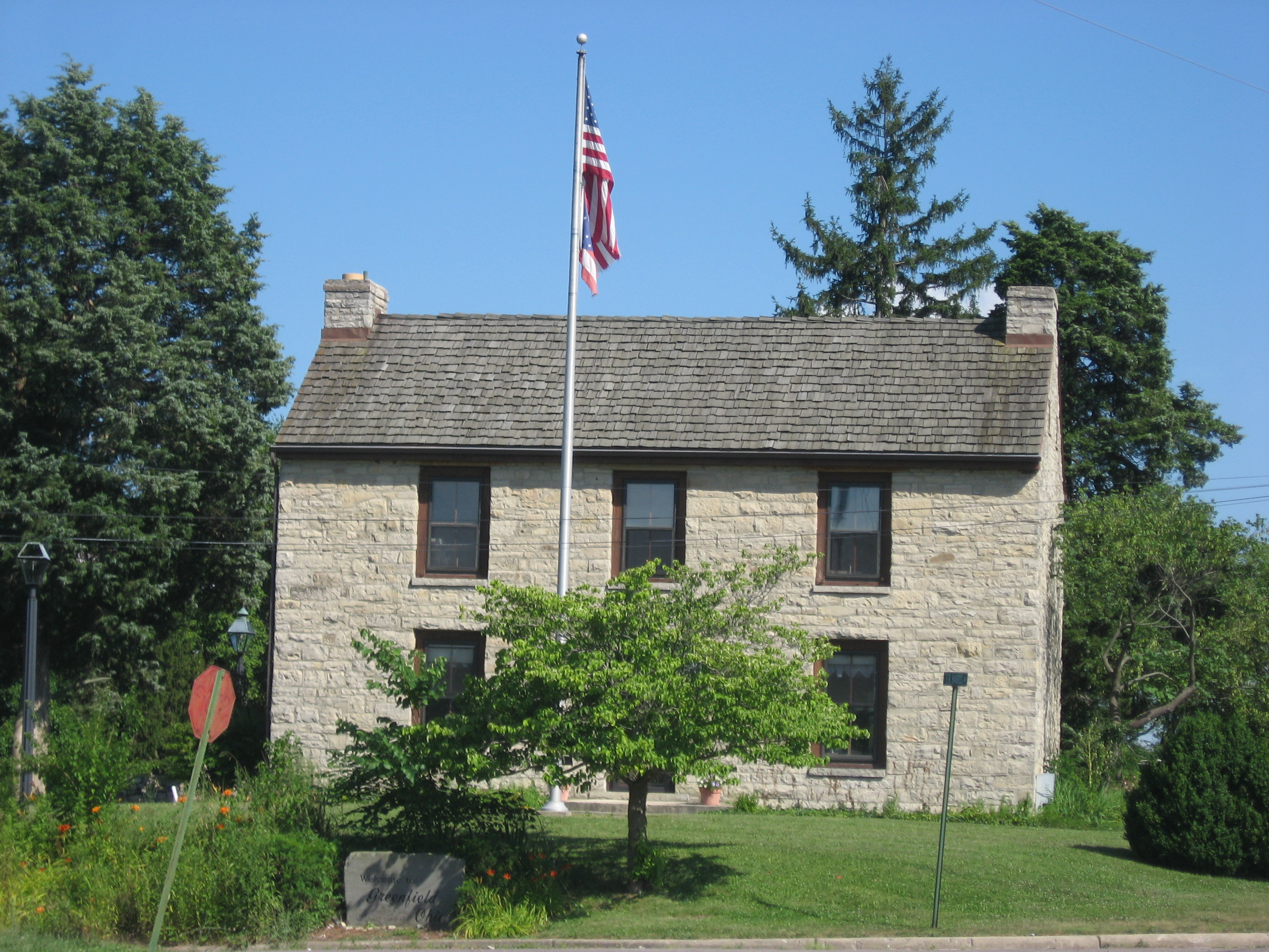 Front of the Travellers' Rest Inn, located at the intersection of Jefferson Street (State Routes 28/41/138) and McArthur Way on the eastern side of downtown Greenfield, Ohio, United States. Built in 1812, it is listed on the National Register of Historic Places.